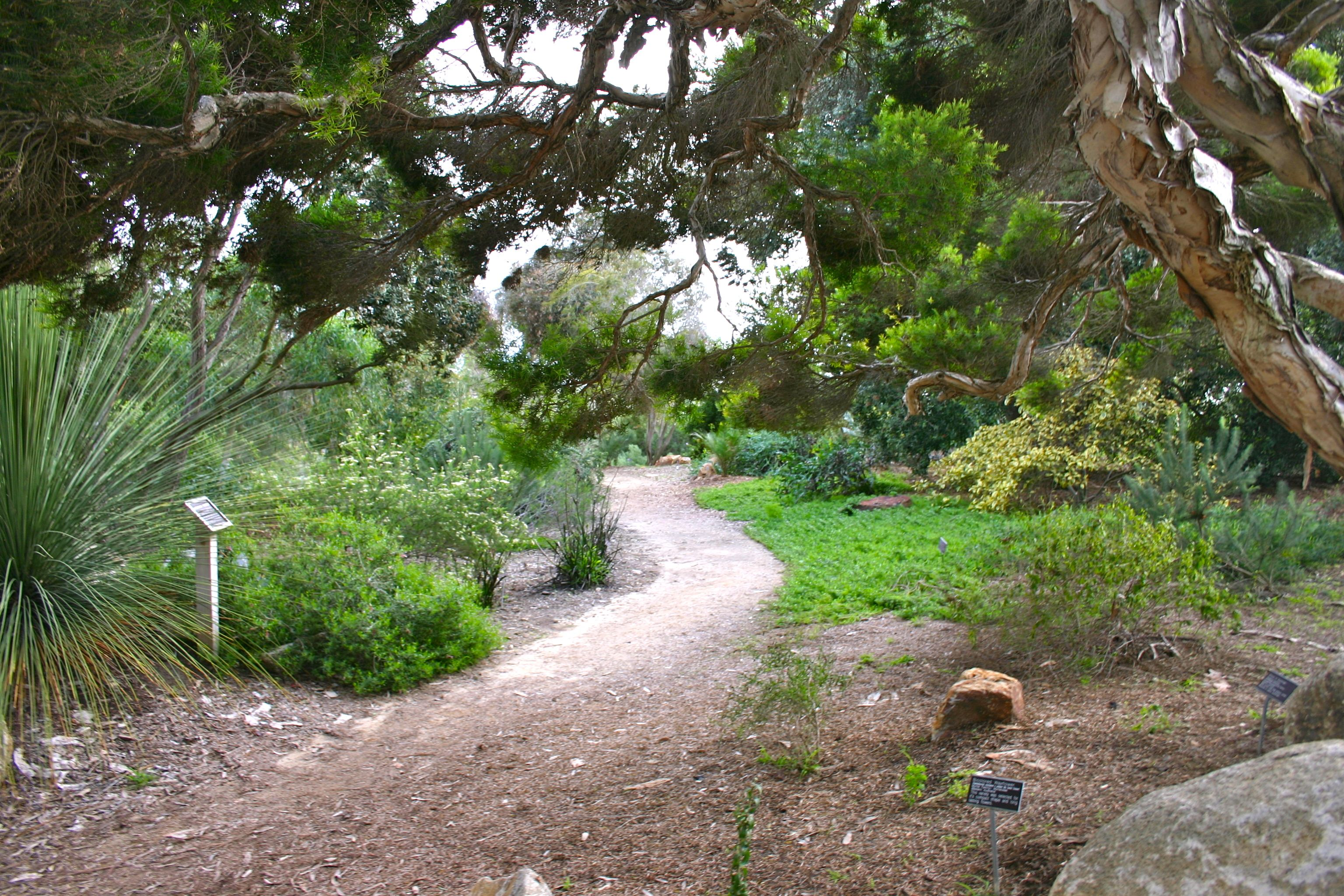 Garden path in the San Diego Botanic Garden (formerly Quail Botanical Gardens) in Encinitas, California.